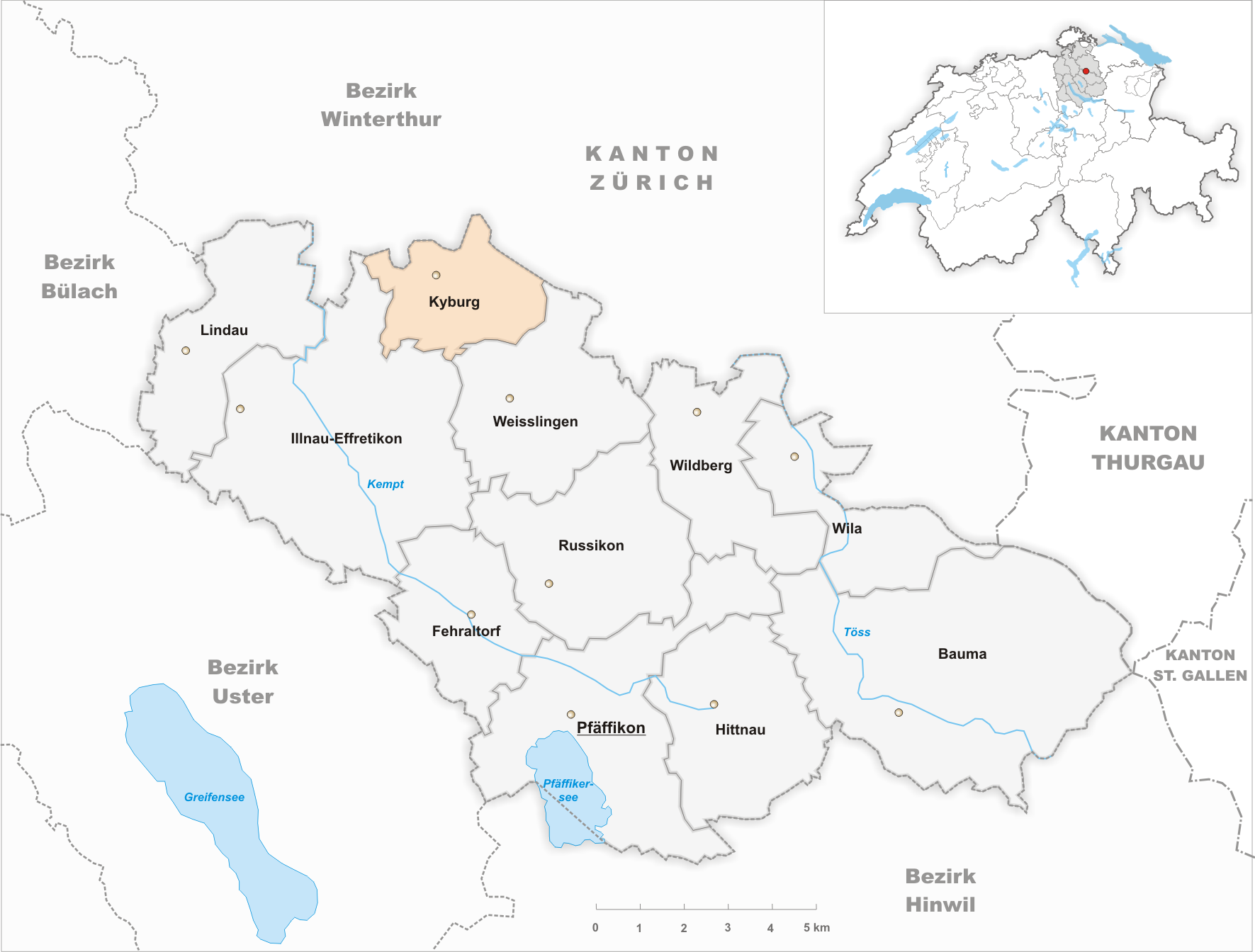 Municipality Kyburg